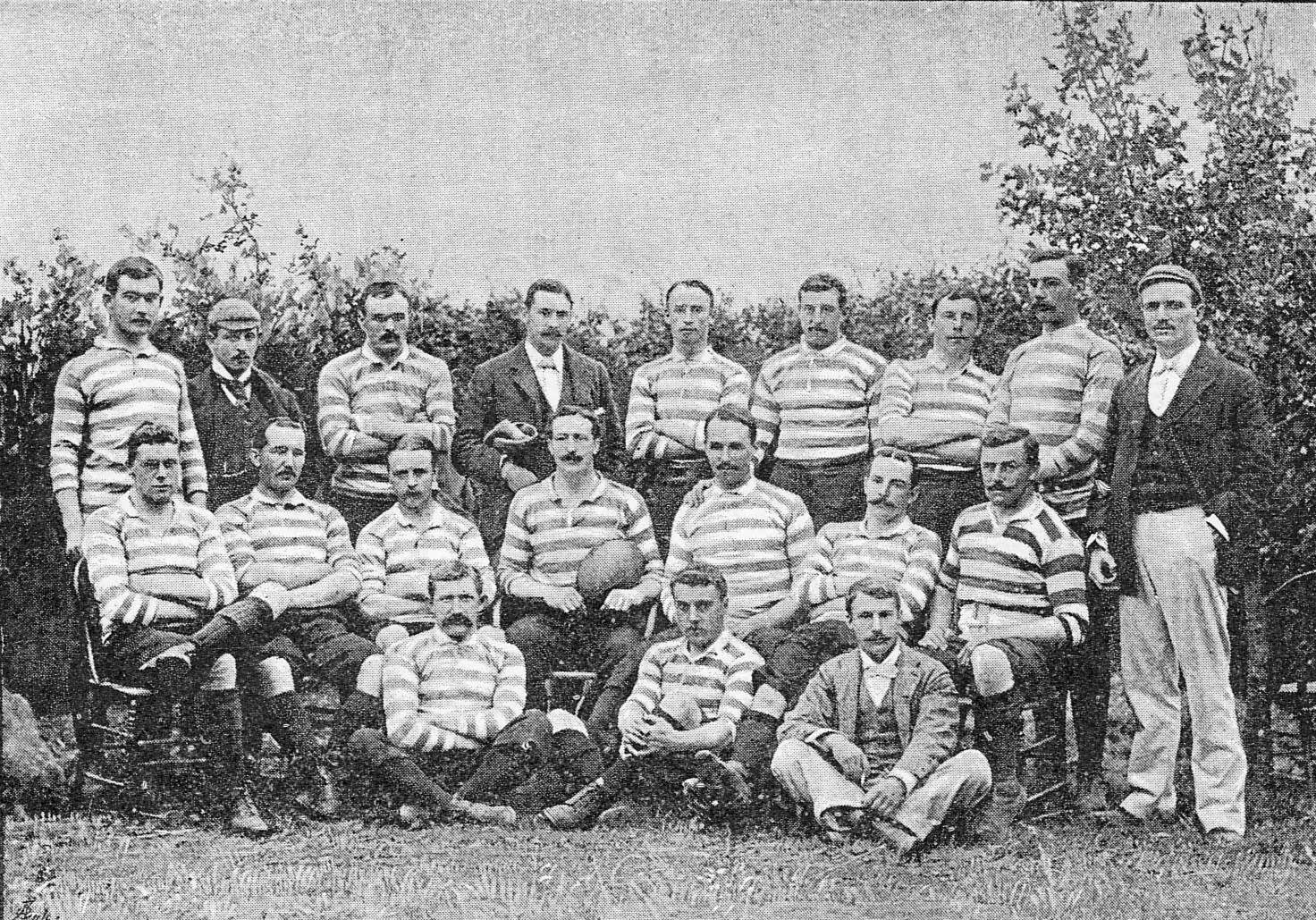 The England Team during its South Africa tour in 1891, or rather the first British Isles team as it contained several Scotsmen.